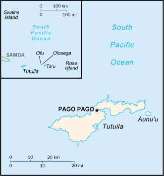 Originally from the CIA World Factbook. Compressed and converted by Guanaco.